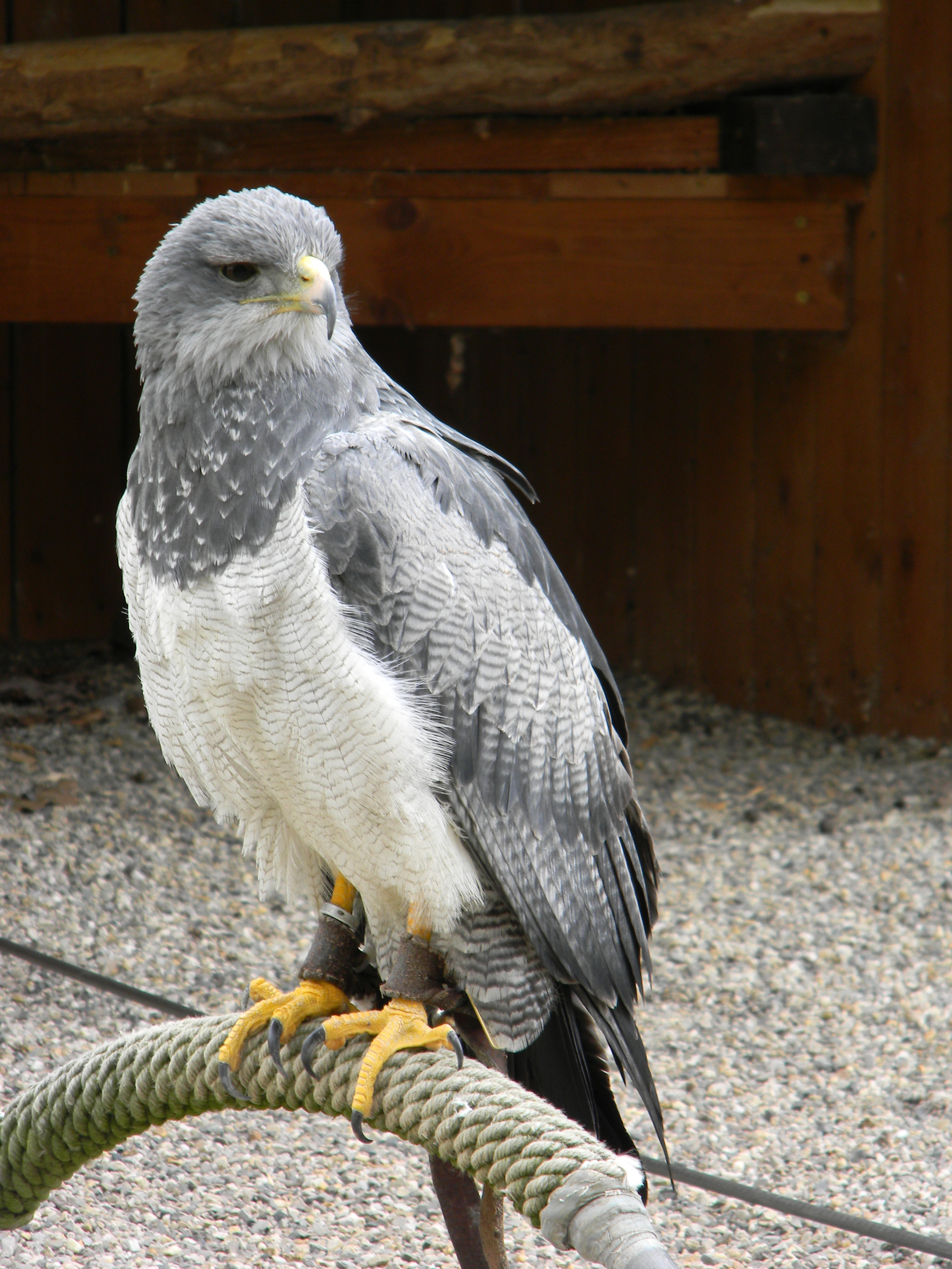 Águia chilena (Geranoaetus melanoleucus ou Buteo melanoleucus)